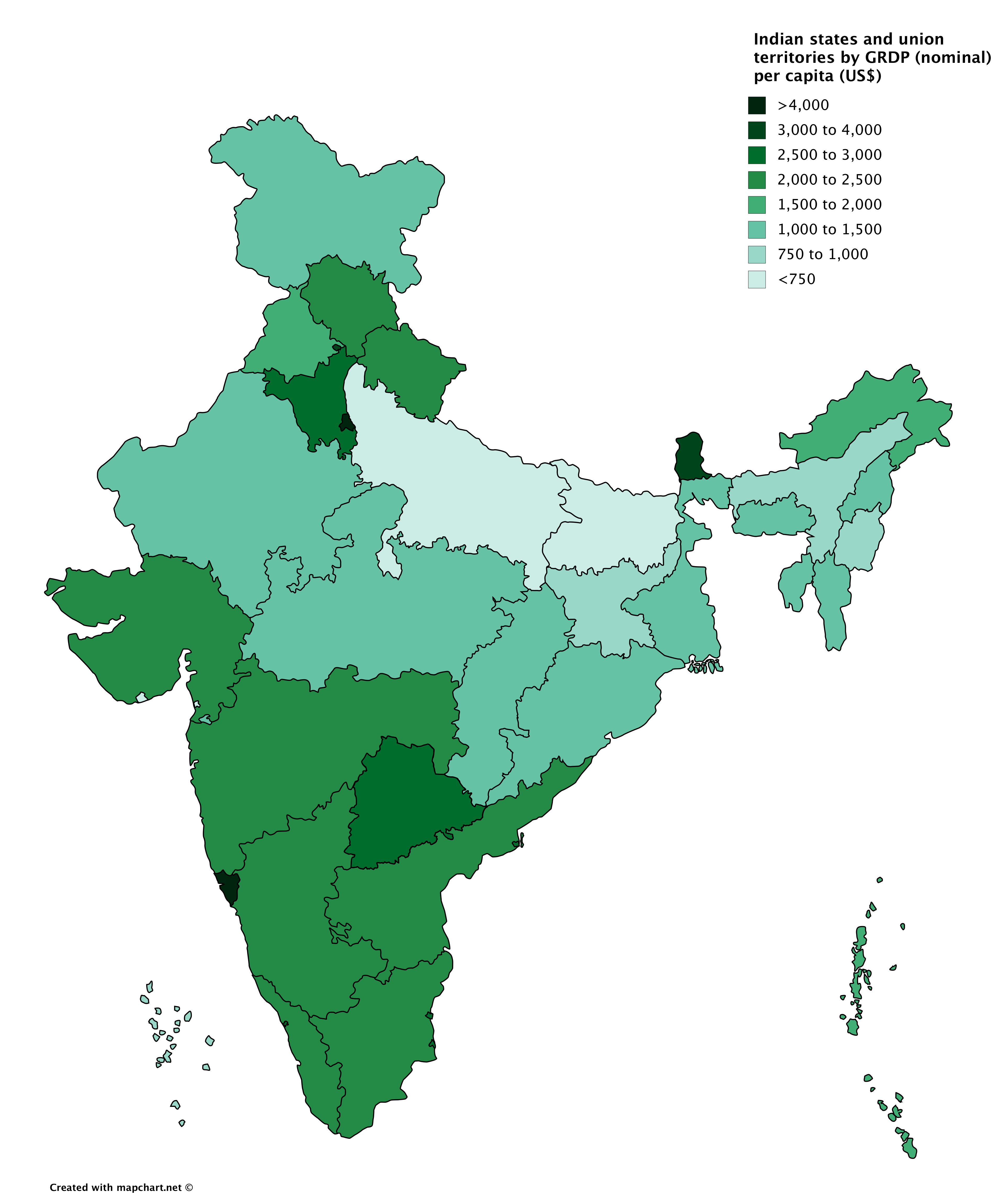 A choropleth map showing the nominal gross regional domestic product (GRDP) of the Indian states and union territories based on latest data.